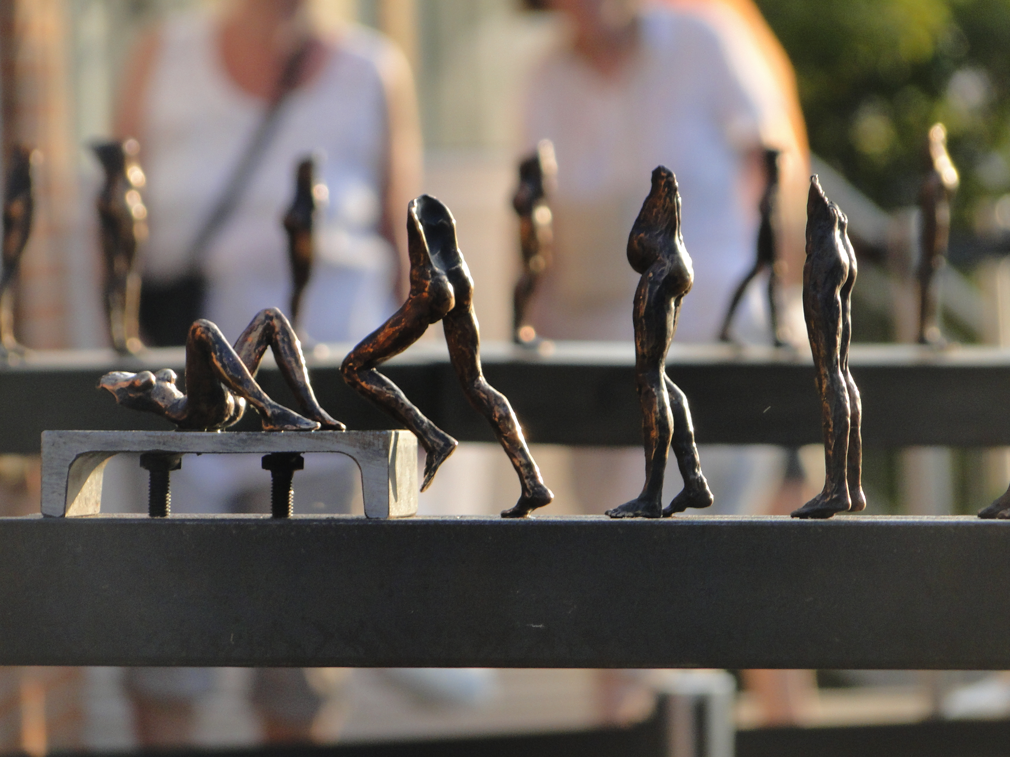 The sculpture "550+1" by the Danish artist Jens Galschiot. On the picture it is exhibited at Kulturmødet Mors in Denmark.